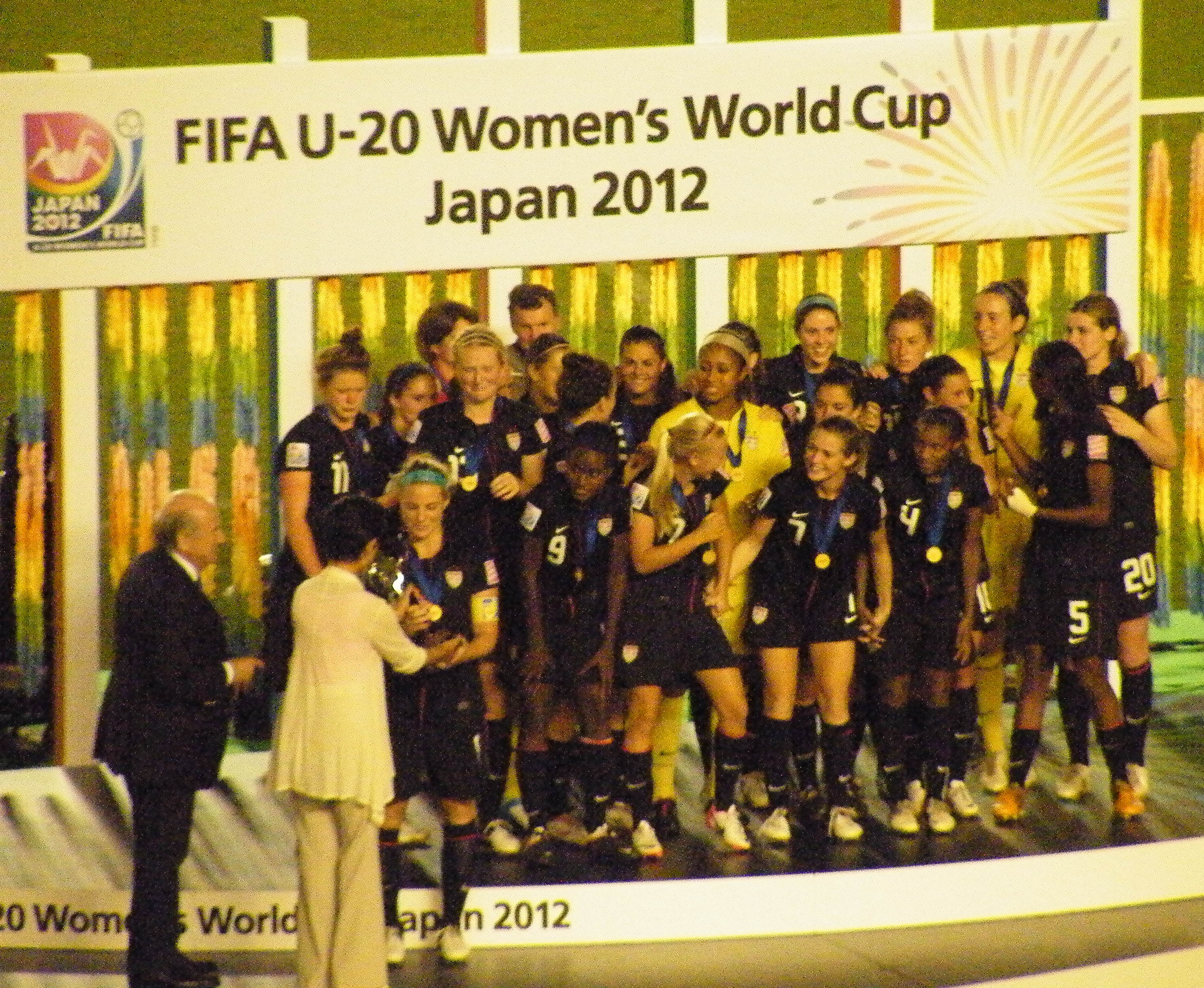 Julie Johnston receiving championship trophy at 2012 FIFA U-20 Women's World Cup